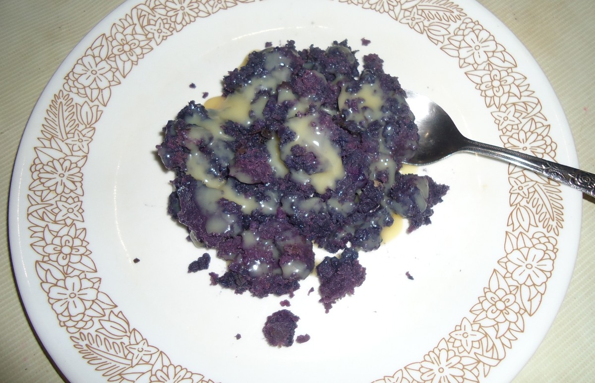 Ube halaya (ube jam) made from mashed ube (purple yam Dioscorea alata) with condensed milk (condensada). This dish is a commonly served in festive occasions in Philippine cuisine.